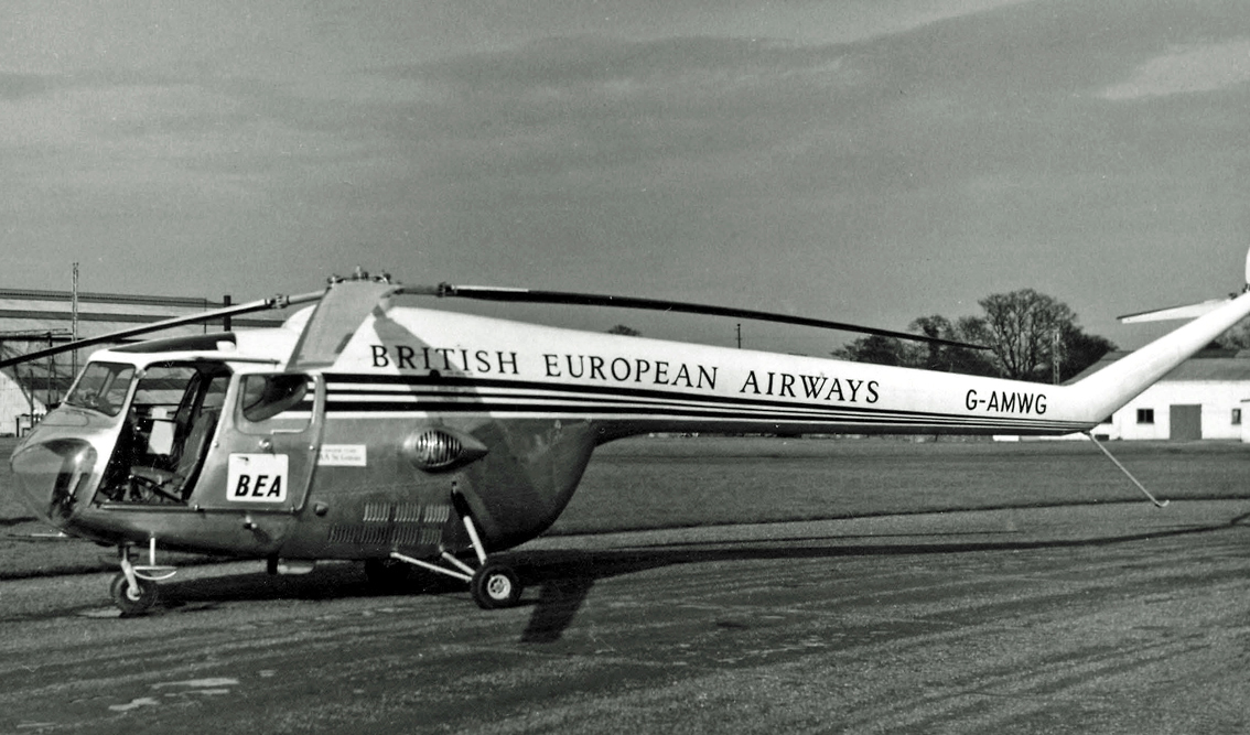 Bristol 171 Sycamore G-AMWG of British European Airways at London Gatwick Airport in 1955